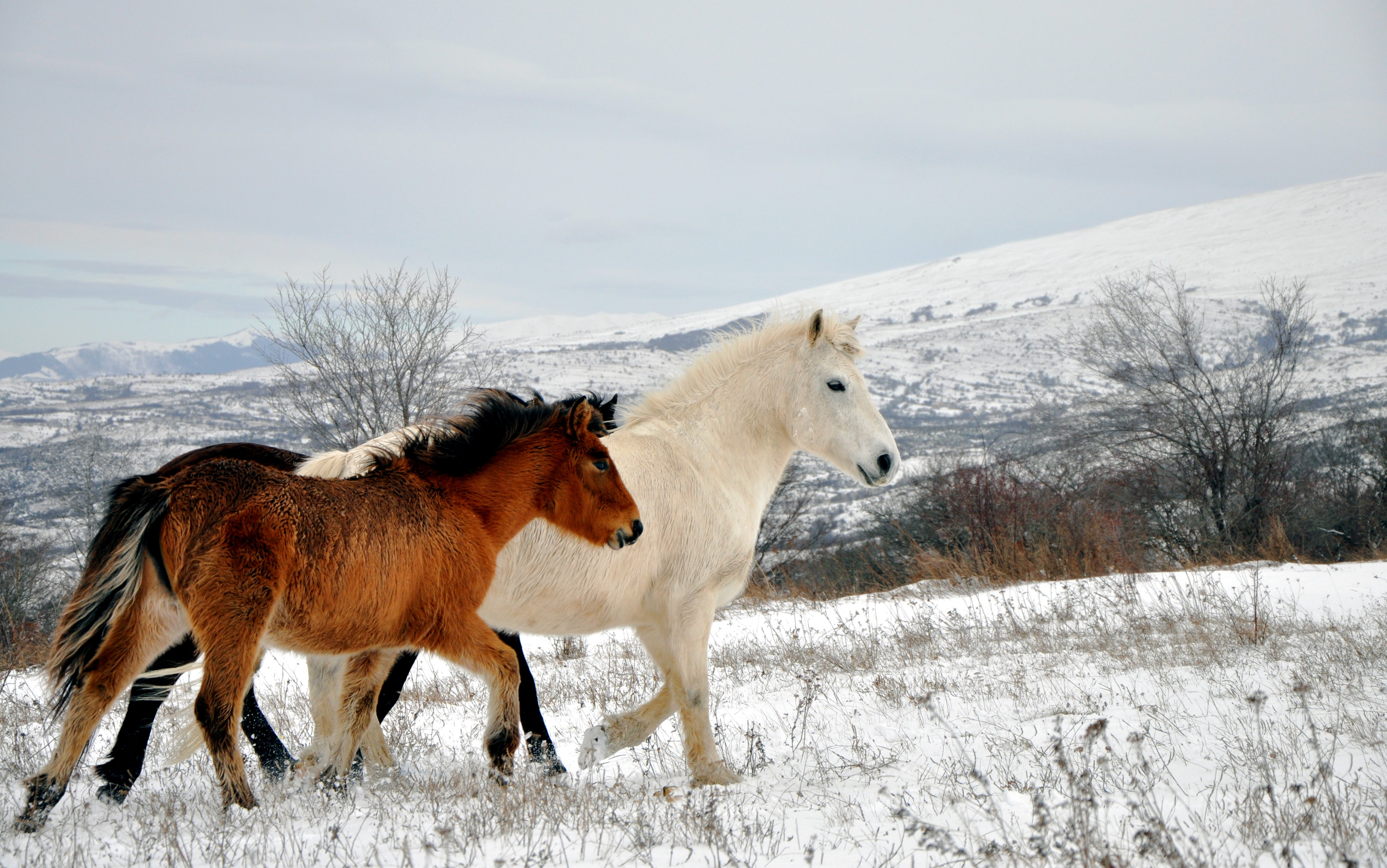 Šar Mountains National Park in Dragaš, Kosovo.